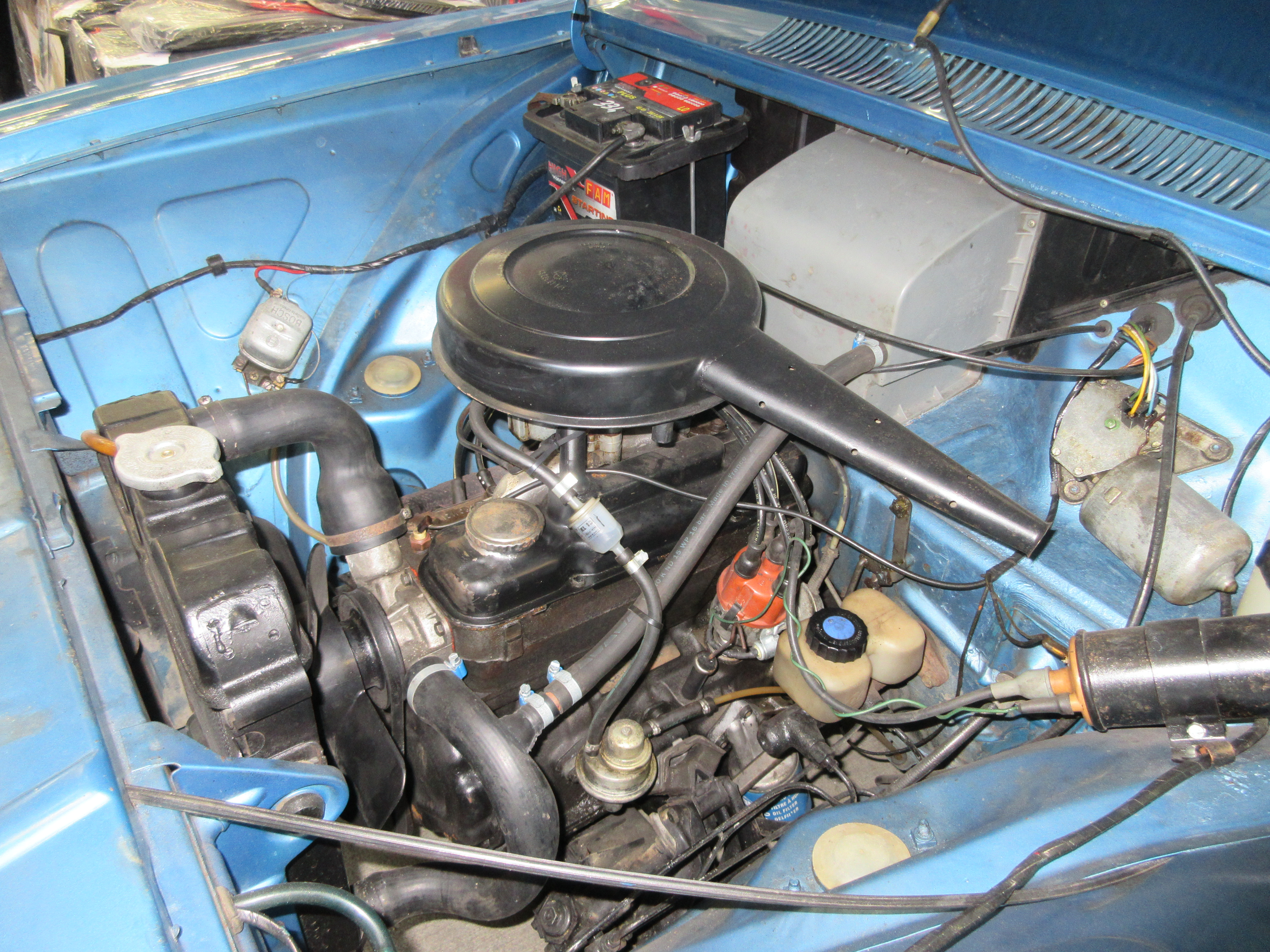 Subject: Opel Kadett B engine bay Author: Luc106 Date:March 5th, 2016 Event: Old Time Show Place/Country: Forlì (Italy) I release all rights in the public domain.